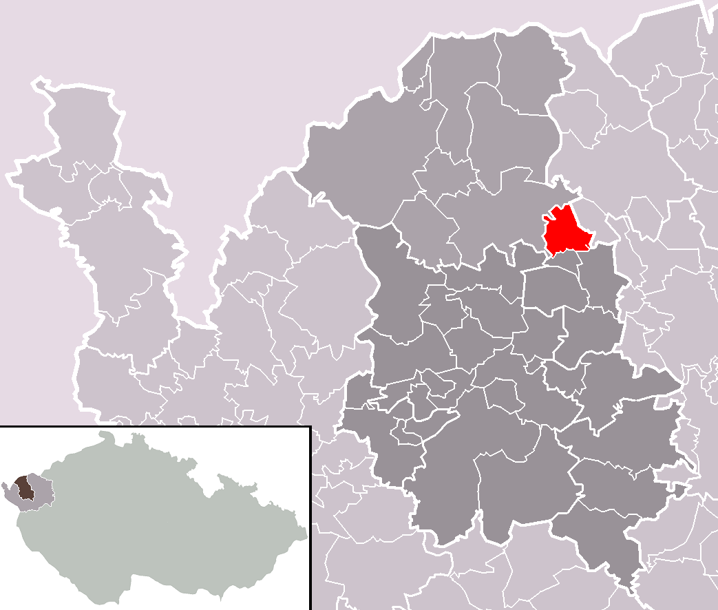 Location of Tatrovice municipality within Sokolov District and administrative area of Sokolov as a Municipality with Extended Competence.